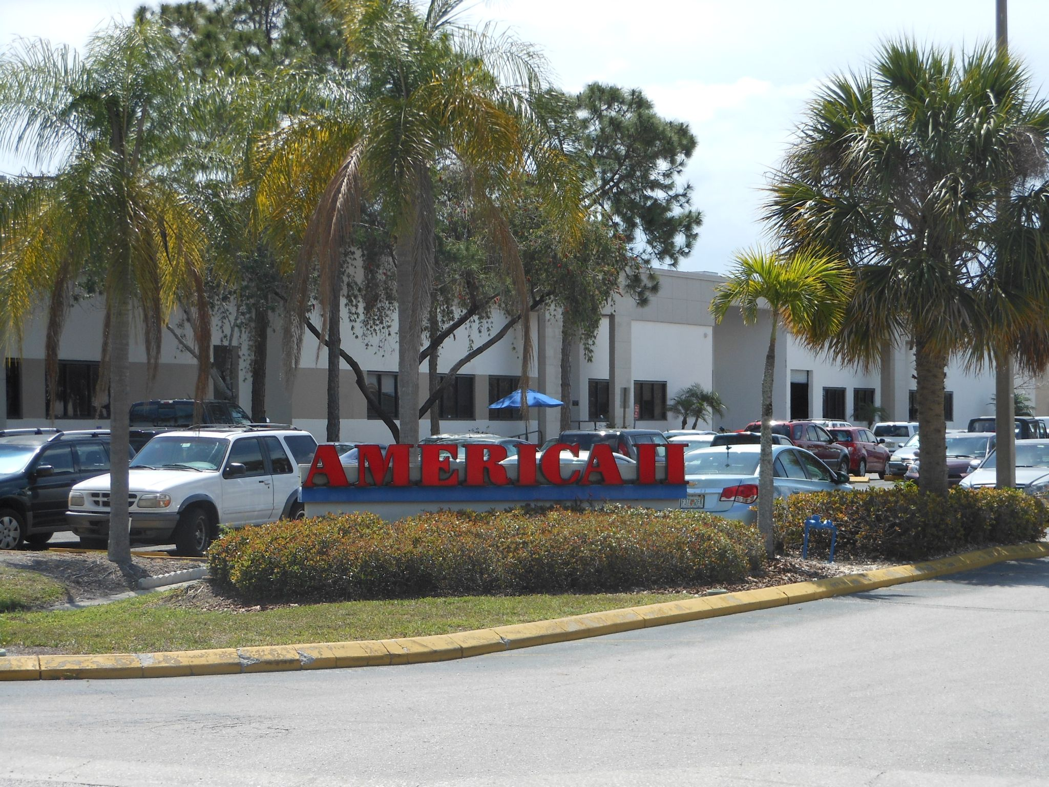 Americ II Electronics Headquarters in St. Petersburg, Fl